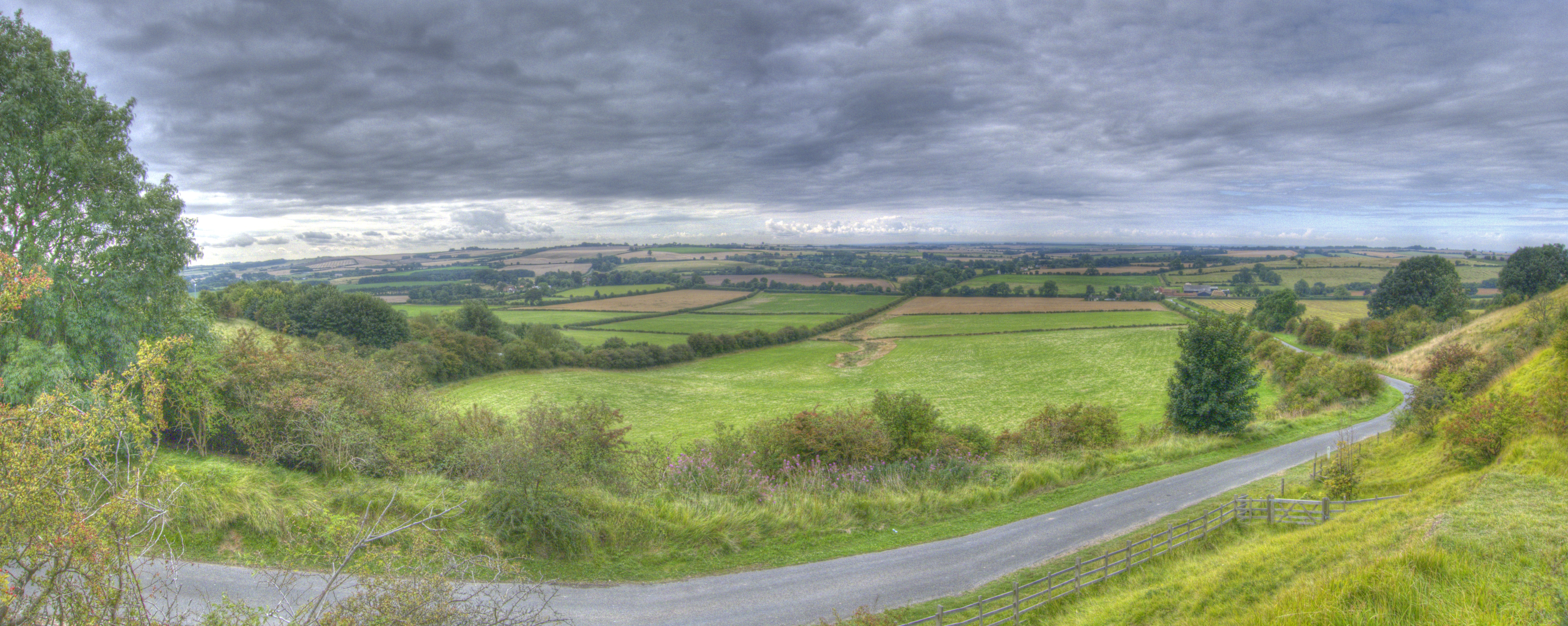 Lincolnshire Wolds from Red Hill reserve, UK. (This is a stitched HDR with some smudging)